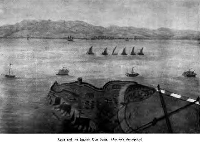 Map of Gibraltar Rosia and Spanish Gunboats drawings all from a book published in 1905-8 but written before 1783 by Captain John Spilsbury about his experiences during the Great Siege of Gibraltar